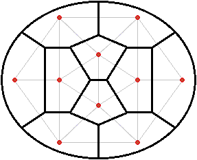 Birkhoff diamond. Its reducibility was proved by George David Birkhoff in 1913